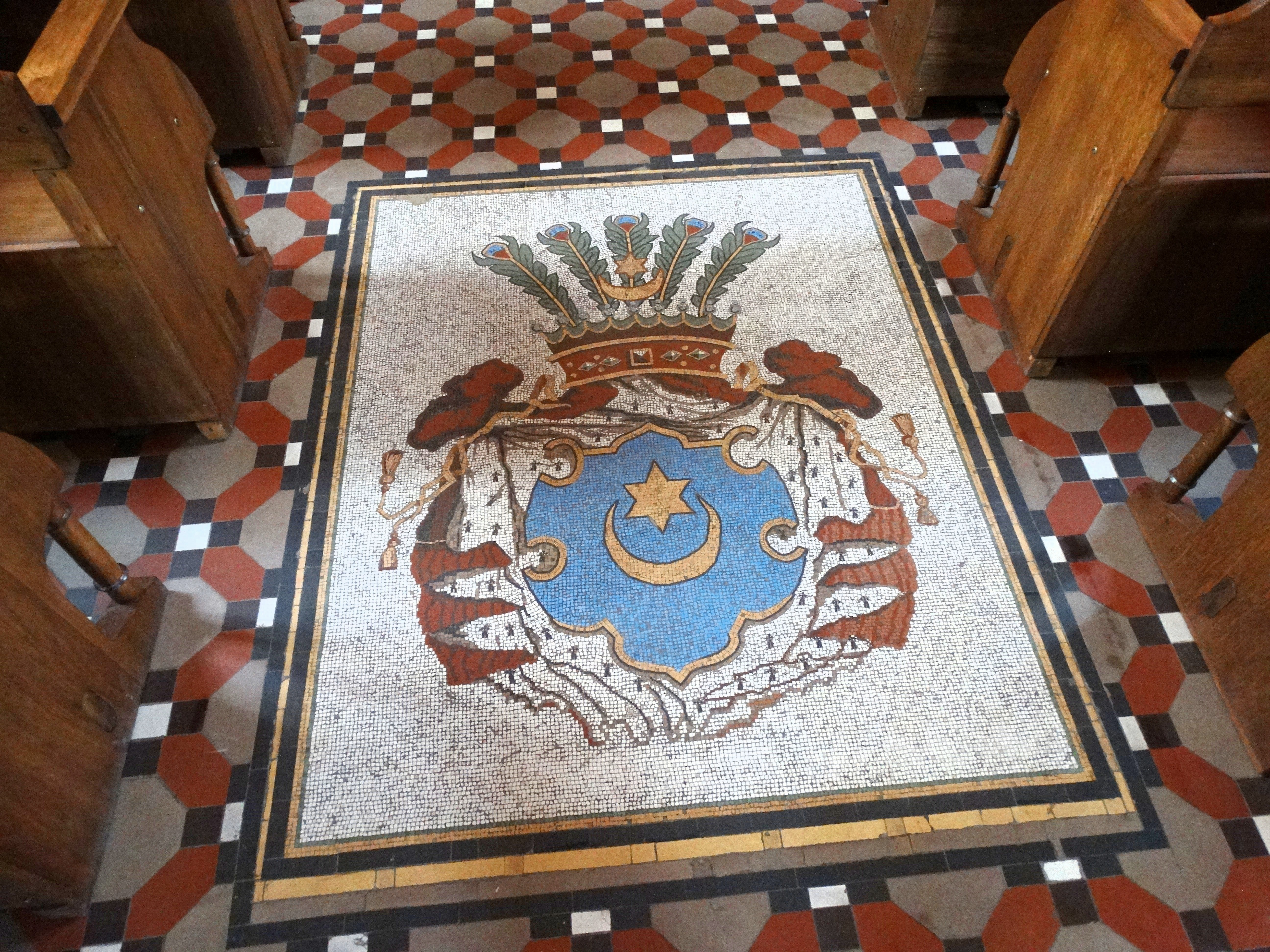 Leliwa (coat of arms), Tyszkiewicz chapel, Trakų Vokė, Vilnius, Lithuania